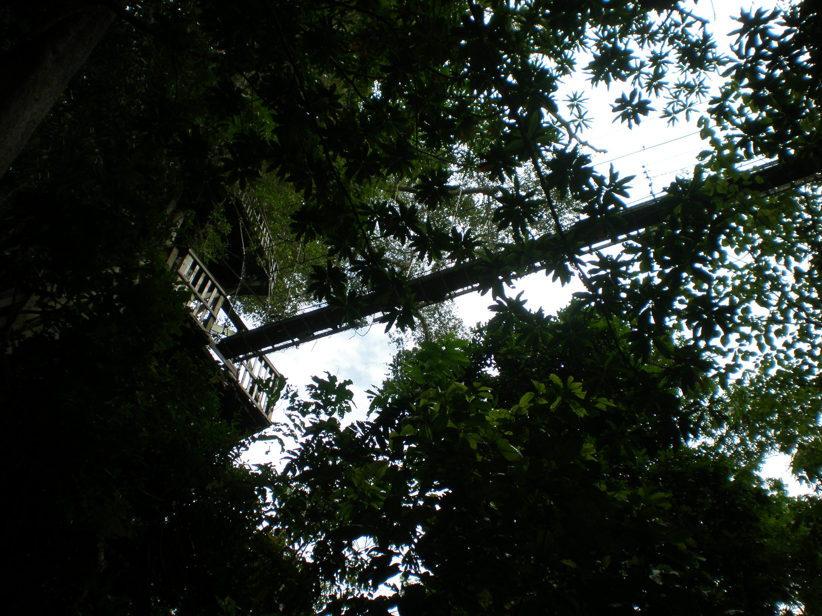 View looking up rainforest canopy at Falealupo, Savai'i island, Samoa.